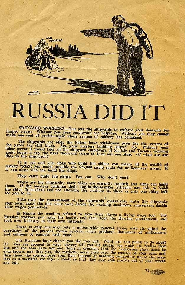 Leaflet produced during the Seattle General Strike.